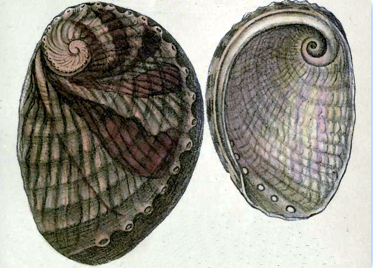 Haliotis australis Gmelin, 1791; family Haliotidae; New Zealand